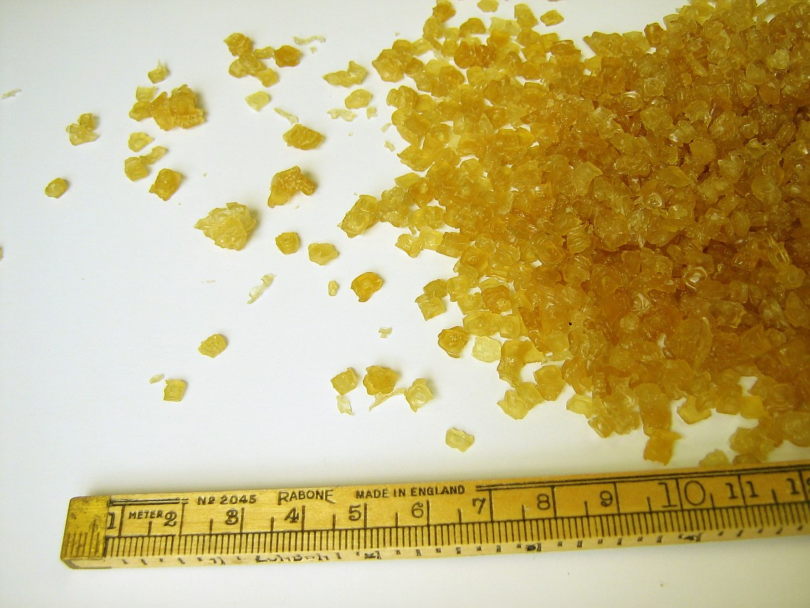 Glue made of bones, the ruler is in cm